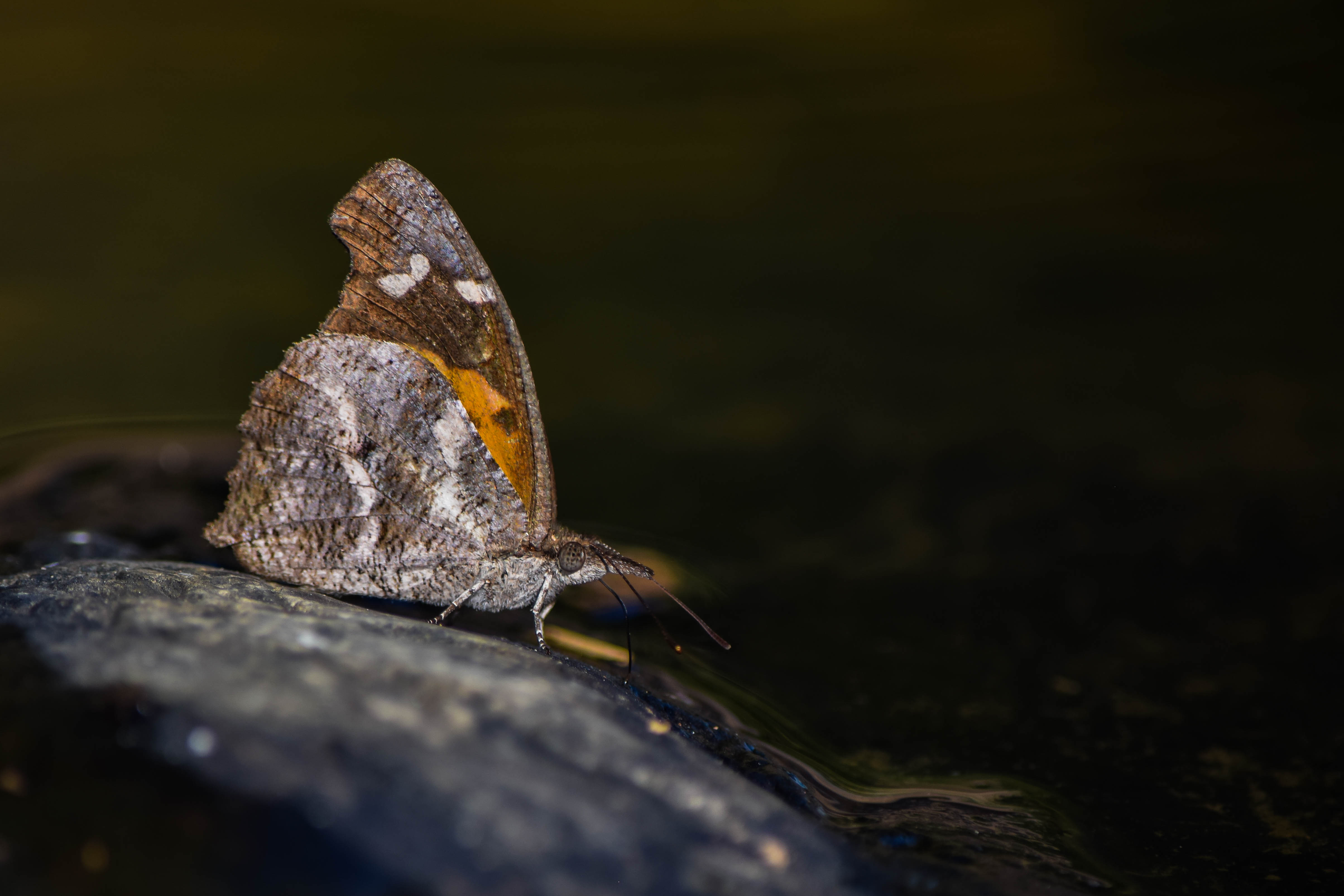 Lobed beak butterfly found at Mamandur Forest. Andhra Pradesh